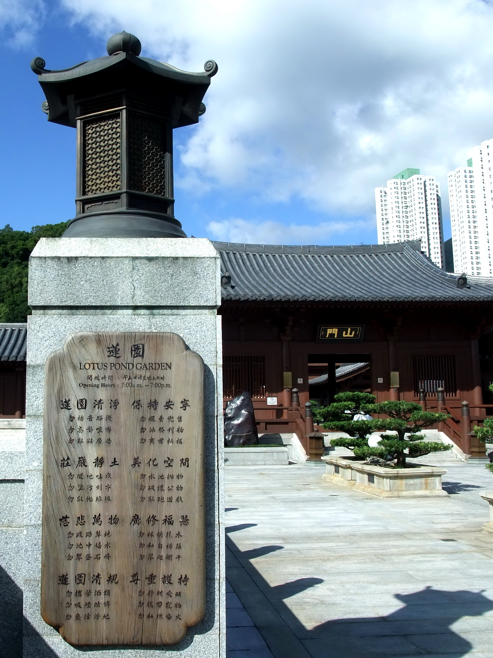 The bridge connecting the Nan Lian Garden to the Chi Lin Nunnery, Diamond Hill, Kowloon, Hong Kong.